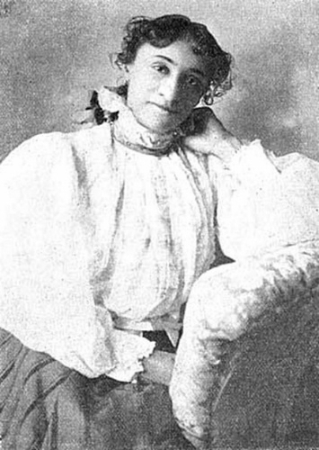 Lillian Alberta Lewis (1861-?), Boston journalist who used the pen name Bert Islew.